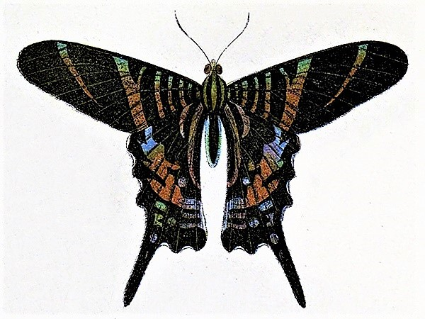 Darstellung aus: 'W. F. Kirby: A handbook to the order Lepidoptera. London, E. Lloyd, limited, 1896-1897'